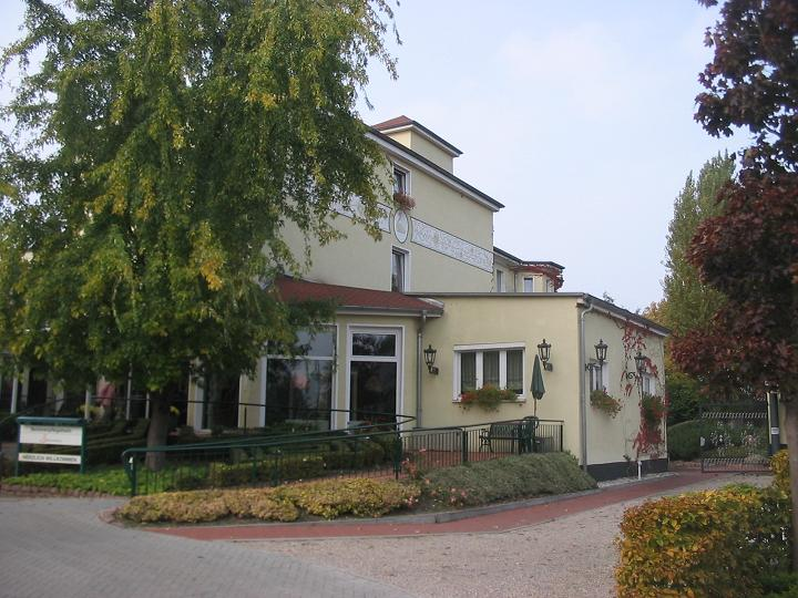 Schwanenburg (historical restaurant, built in 1906, todays nursing home for persons of old age) in Wernsdorf. Wernsdorf is a part of the town Königs Wusterhausen in the district Dahme-Spreewald, state Brandenburg, Germany.